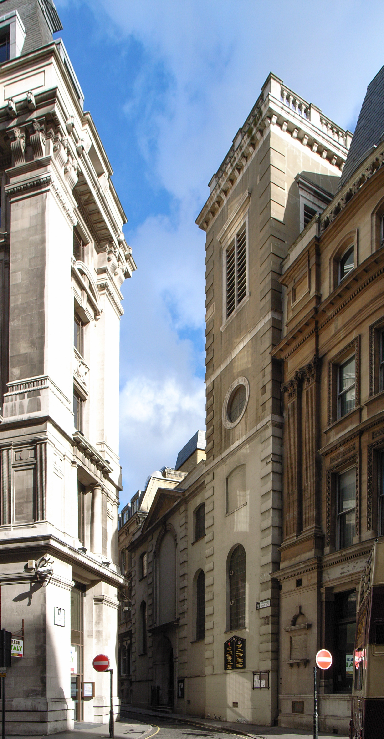 St Clement Eastcheap (1683-87) by Christopher Wren